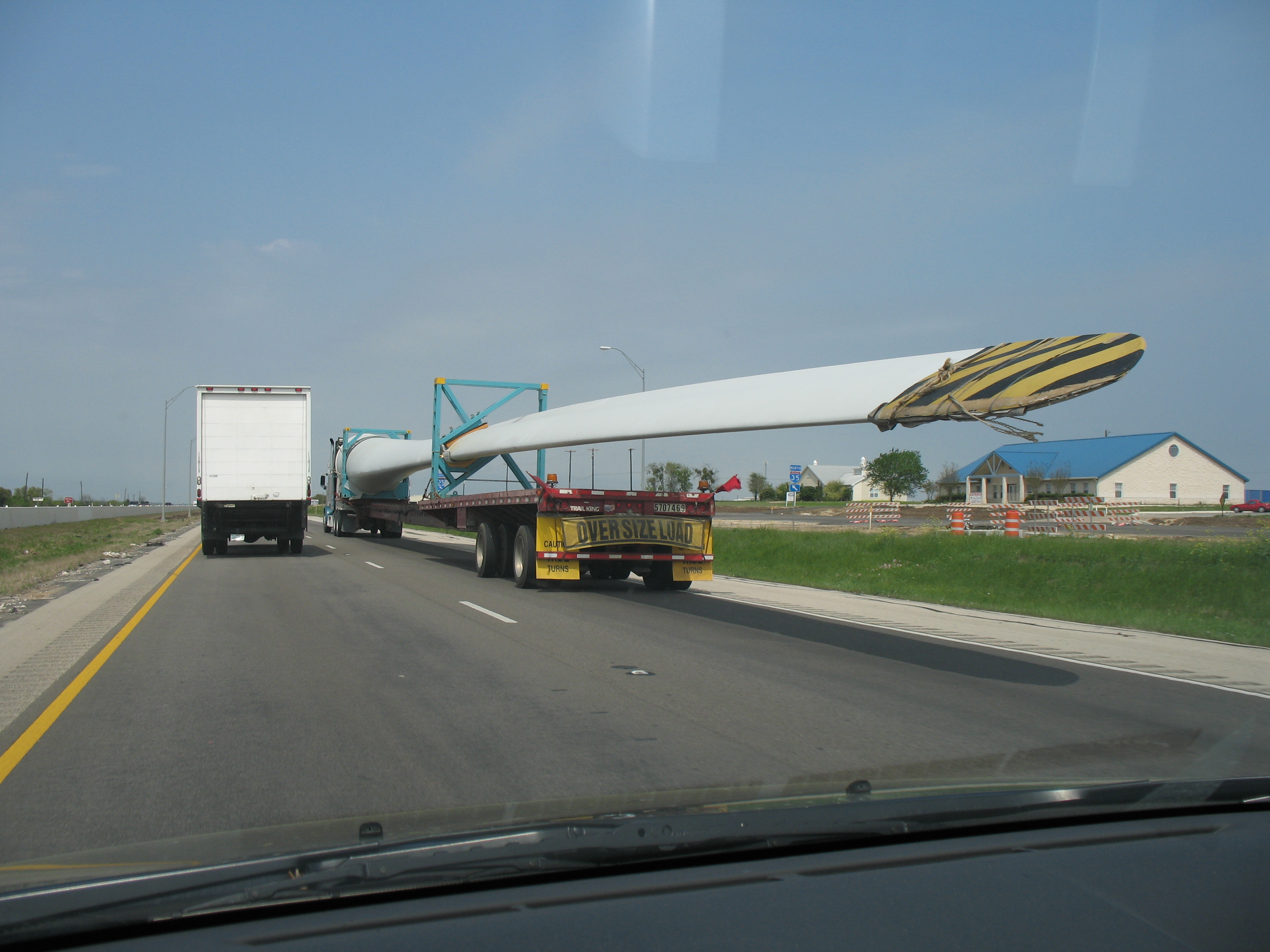 Wind turbine blade on Interstate 35 near Elm Mott, Texas